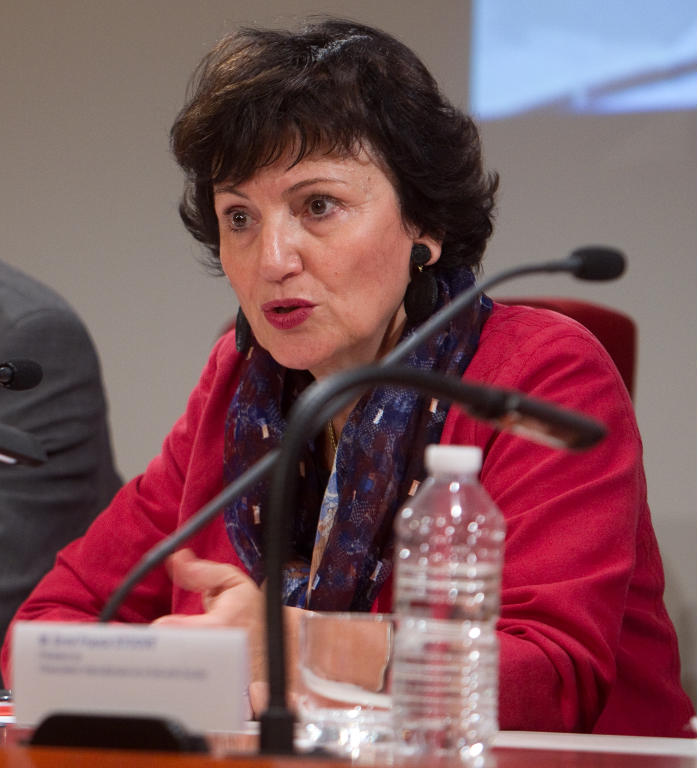 The photo was taken at the seminar “Using social security to empower people and enhance their responsibility” organized by the International Social Security Association (ISSA). It represents Dominique Bertinotti, French Deputy Minister for Family Affairs.